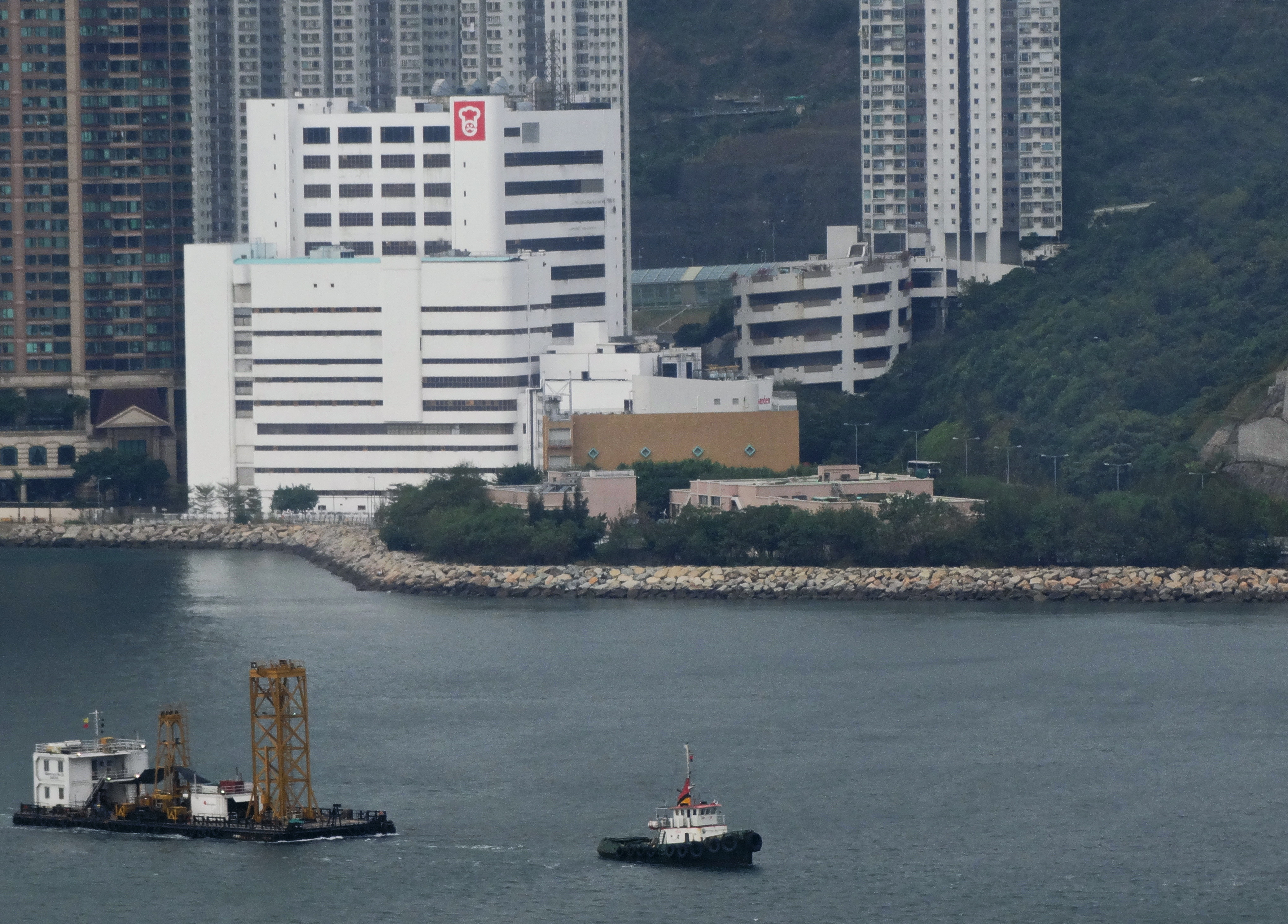 Garden Company Limited Sham Tseng Production Facilities, Hong Kong.